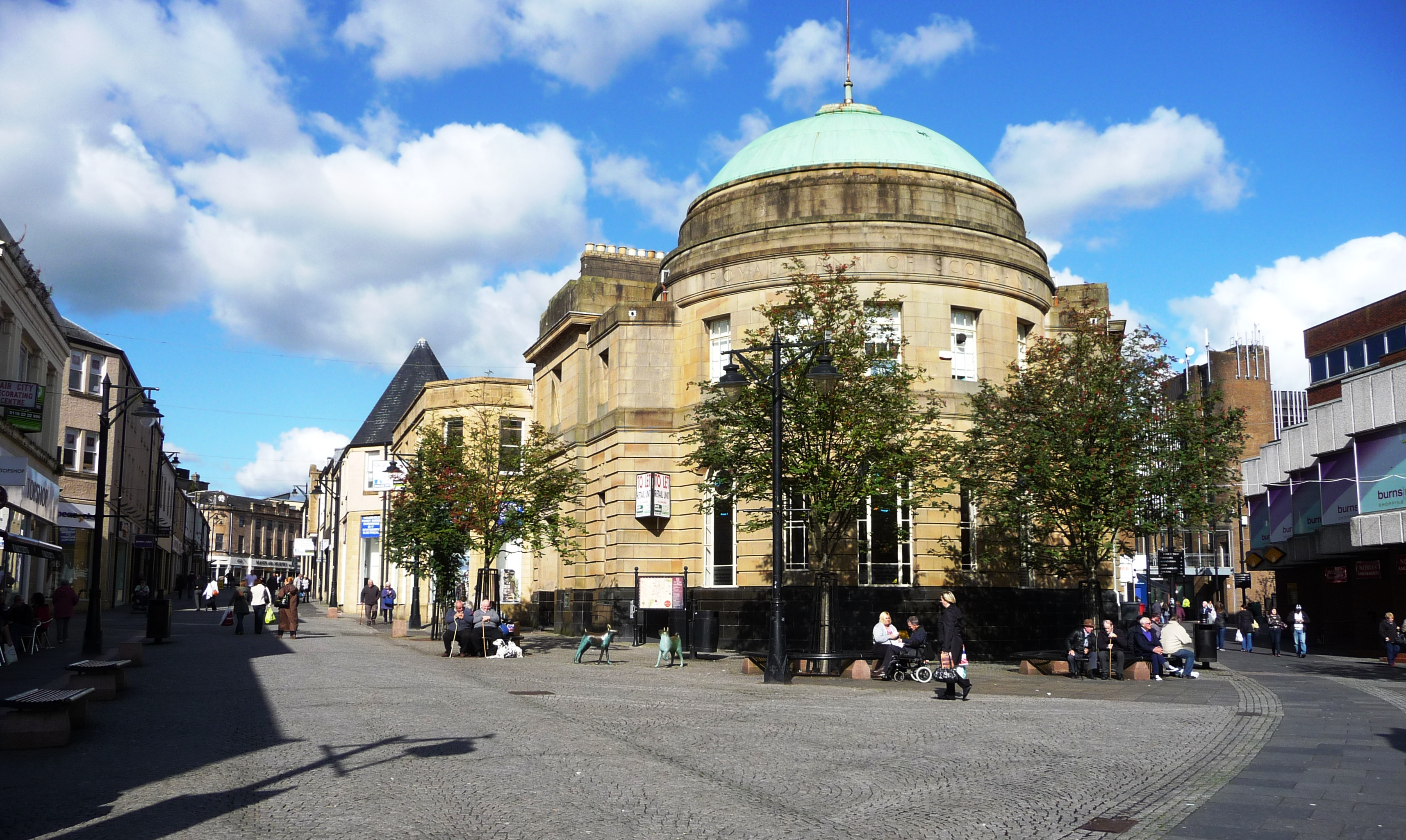 Royal Bank of Scotland building on King Street, Kilmarnock in Scotland